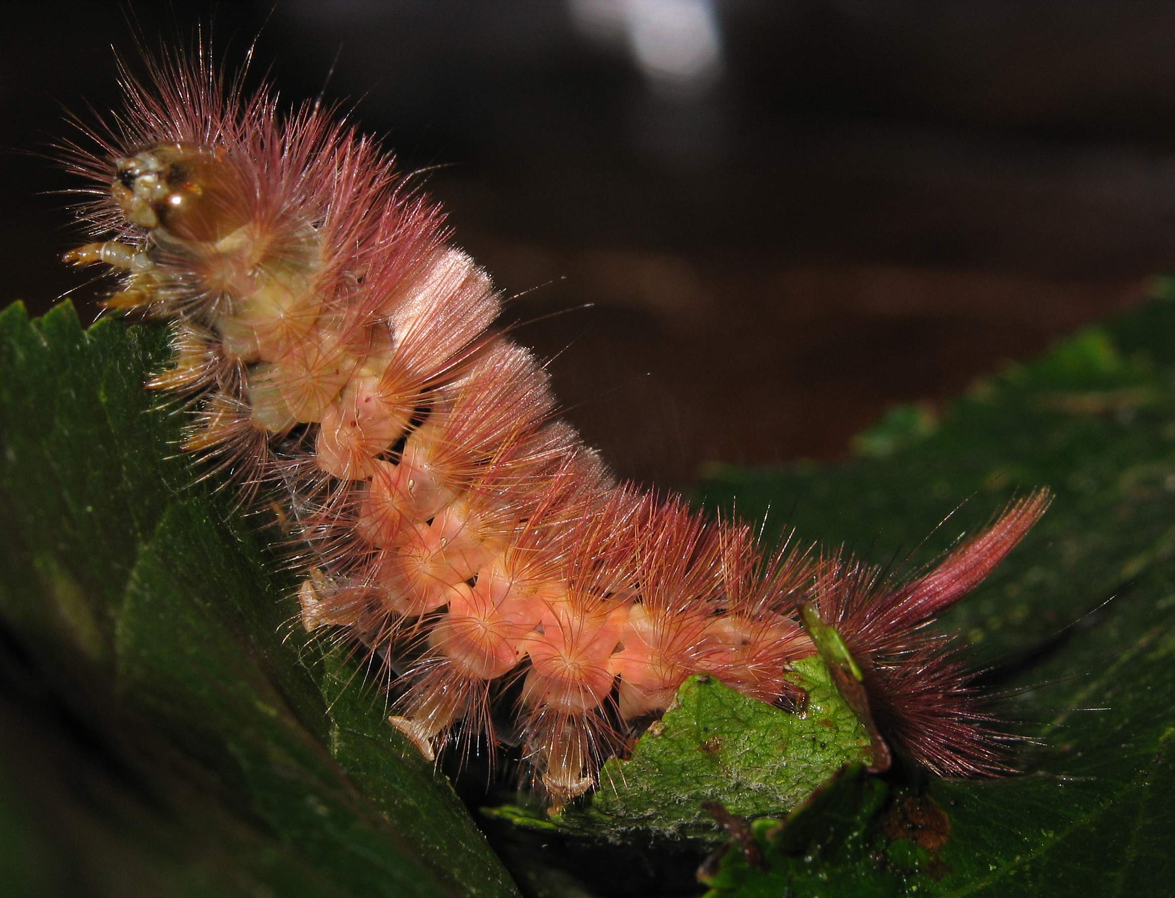 Caterpillar of a Pale Tussock (Calliteara pudibunda). Author: soebe Date: October 01, 2005 Location: Eckernförde, Northern Germany Taken by Soebe in Northern Germany (Eckernförde) and released under GNU FDL.